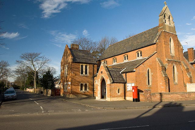 Sacred Heart Roman Catholic church, Needingworth Road, St Ives, Cambridgeshire (formerly Huntingdonshire), seen from the southeast